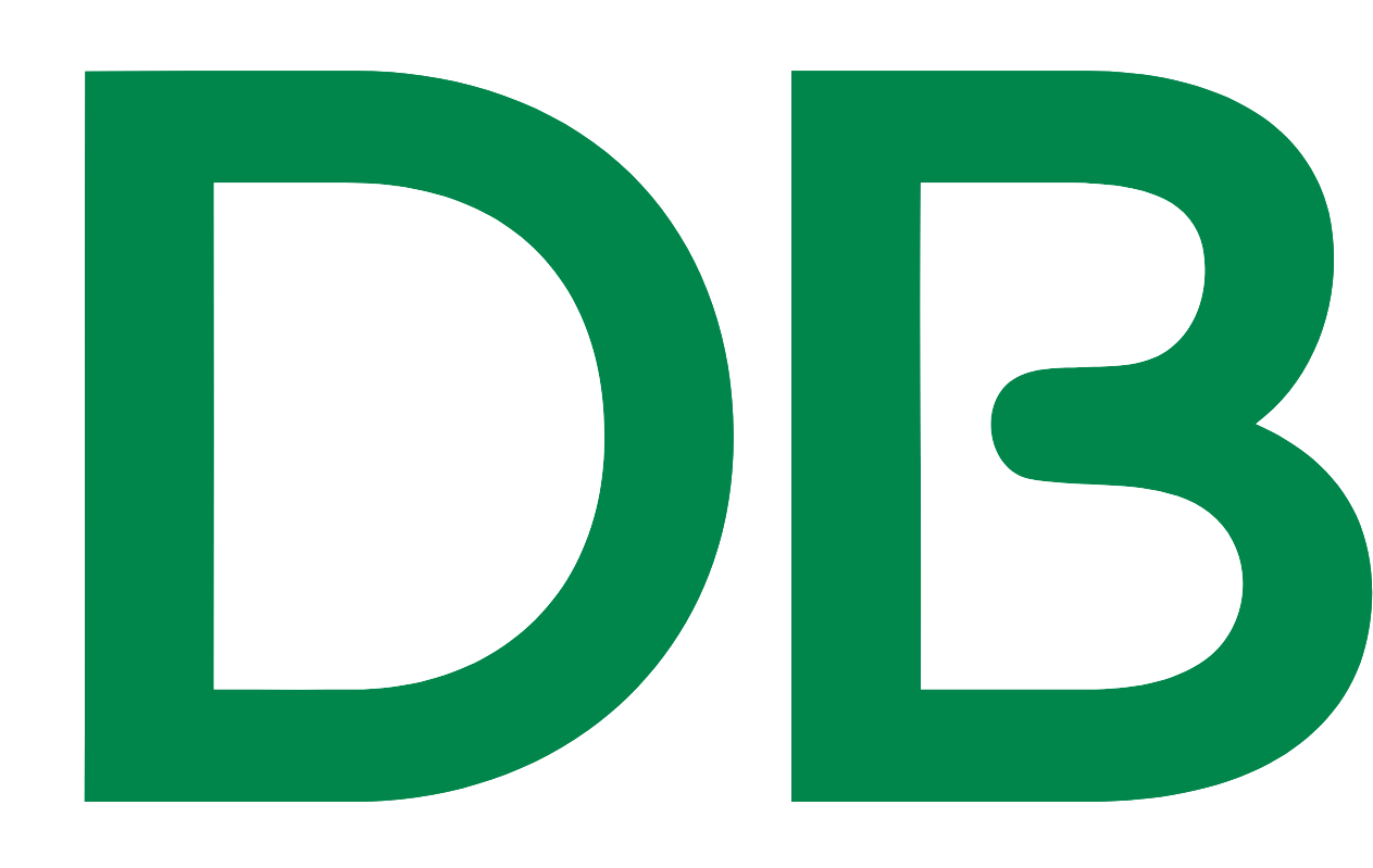 new Dongbu Group Logo